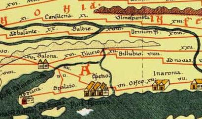 Part of Dalmatia from Tabula Peutingeriana, konrad miller´s facsimile from 1887